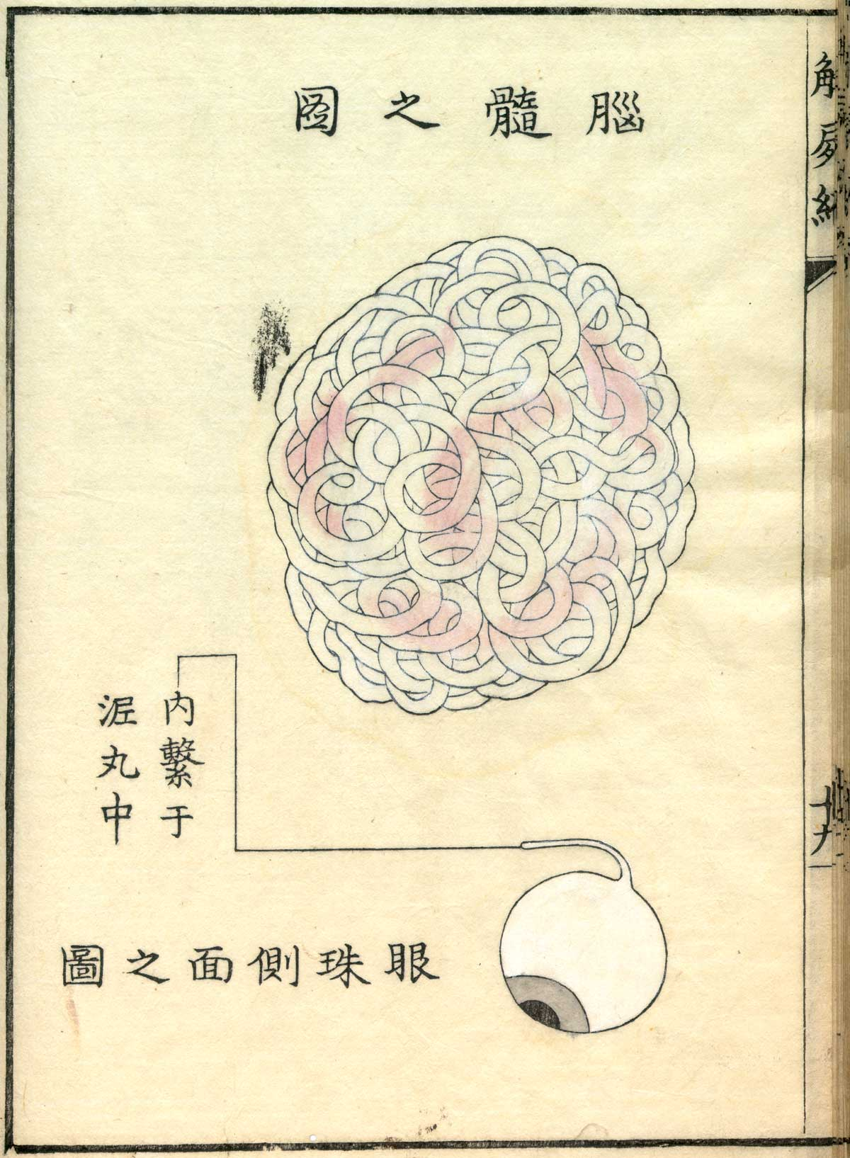 Kaishi hen. Kawaguchi Shinnin Shien cho (解屍編 / 河口信任子遠著 "Complete notes on the dissection of cadavers") is an anatomical atlas by Kawaguchi Shinnin (1736-1811).